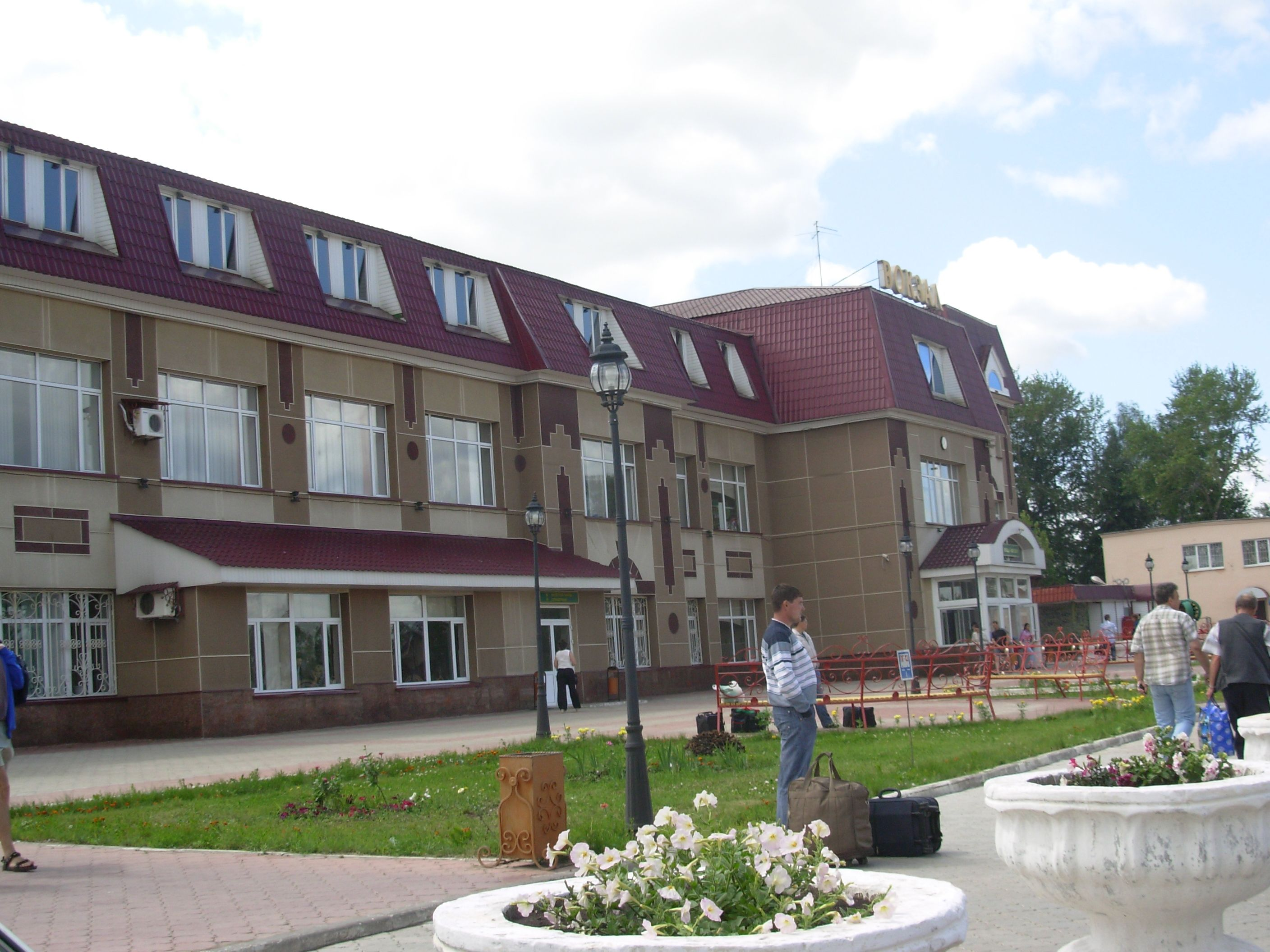 station